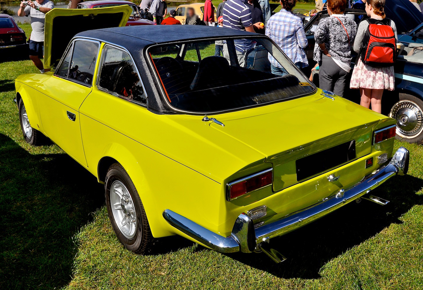 Gilbern, 1973. This is the widened facelift mode, still with the 2994cc Ford Essex V6 engine.